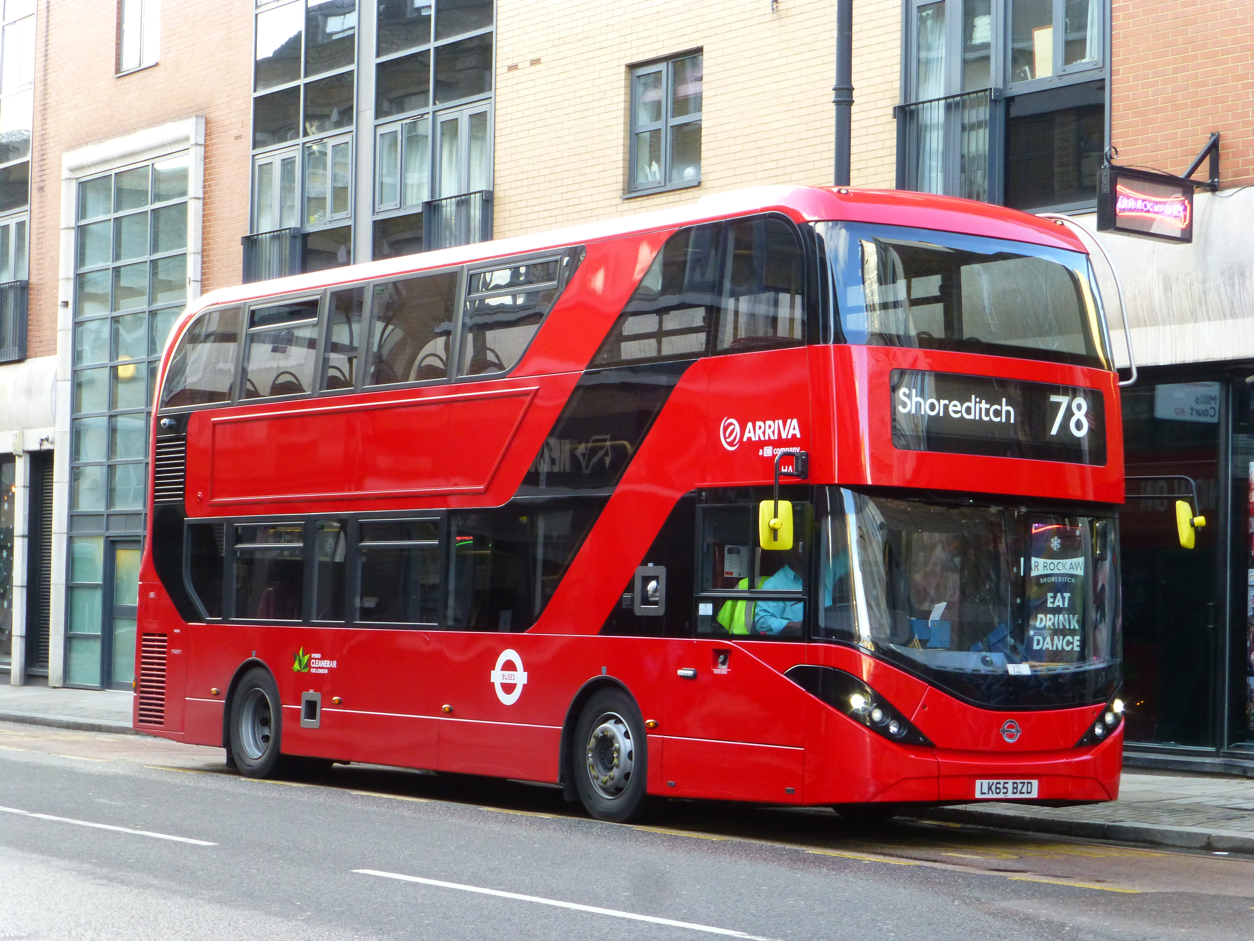 Alexander Dennis Enviro400H City bus on route 78 at its Curtain Road Shoreditch terminus outside the Far Rockwaway American restaurant bar